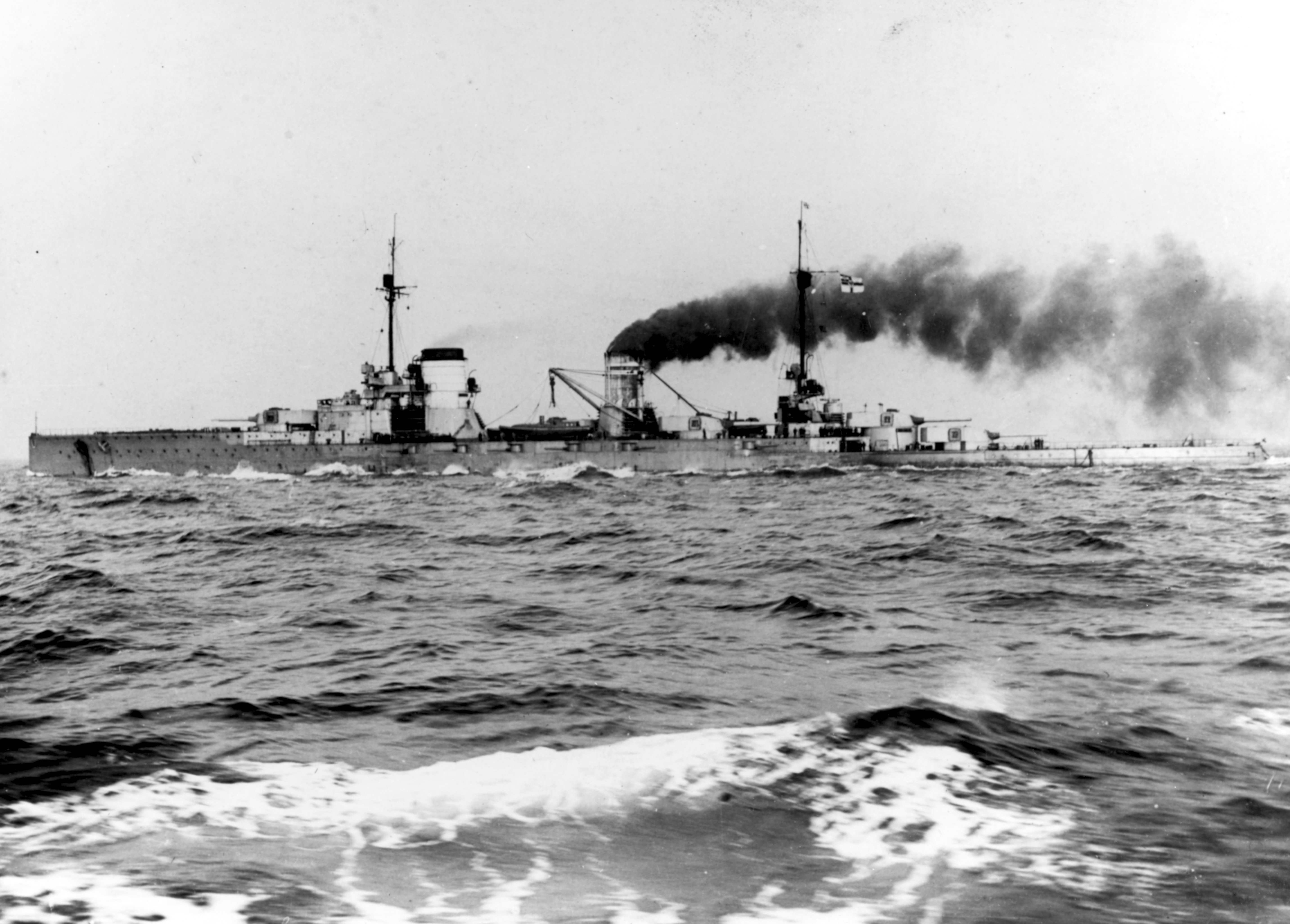 SMS Seydlitz (German Battle Cruiser, 1913-1919), steaming to Scapa Flow to be interned